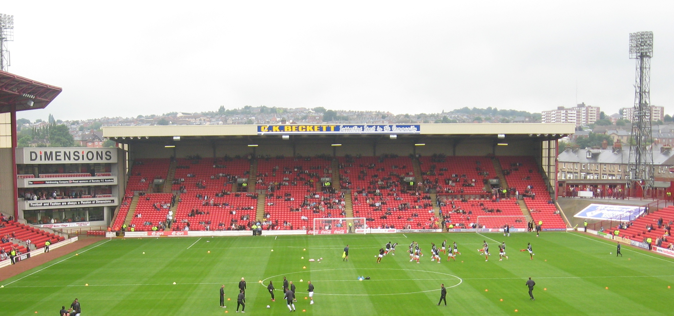 The CK Beckett Stand at Oakwell, Barnsley